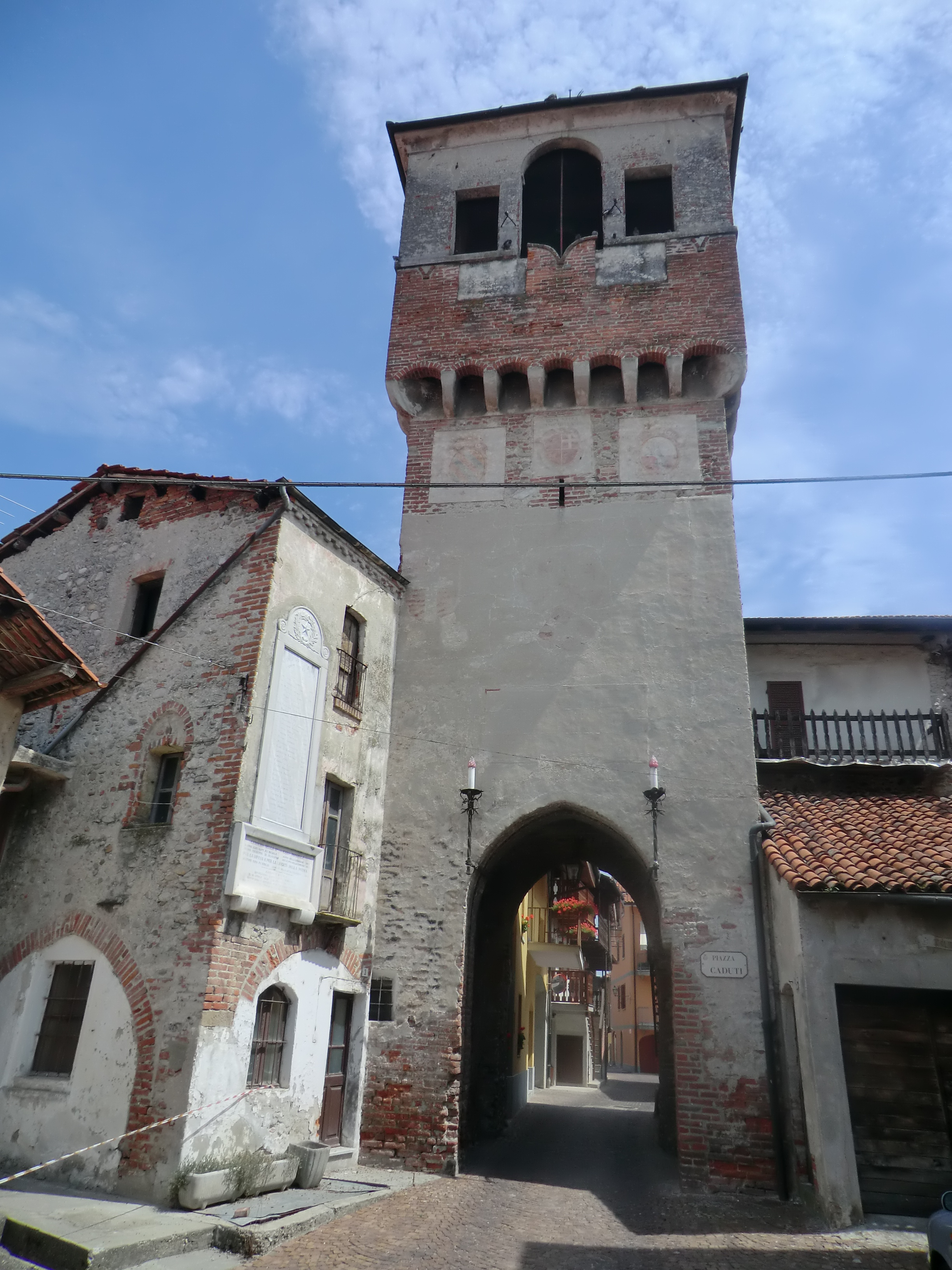 Margarita: civic tower